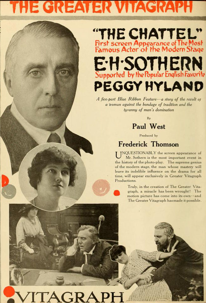 Advertisement in Moving Picture World for the film The Chattel (1916) with E. H. Sothern and Peggy Hyland.